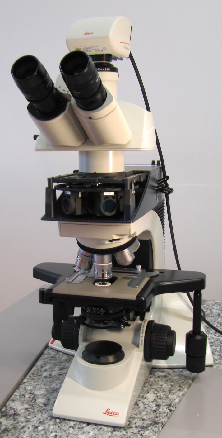 Leica DM 2500 fluorescence microscope with cover removed so that the turret for the fluorescence filter cubes is visible.